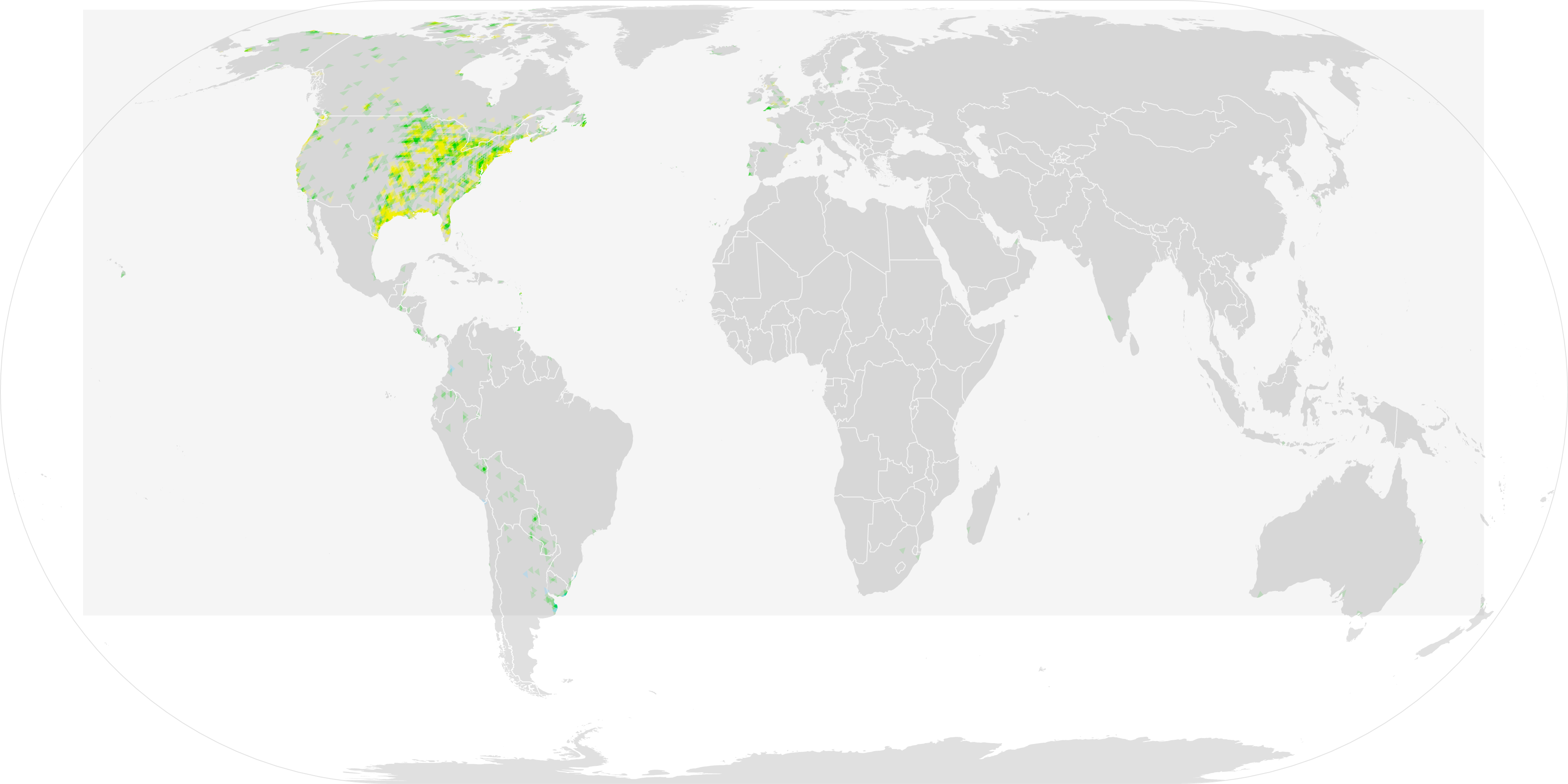 Yellow = summer, Green = migration, Blue = winter.Source: Self-Generated from eBird Basic Dataset 2015.